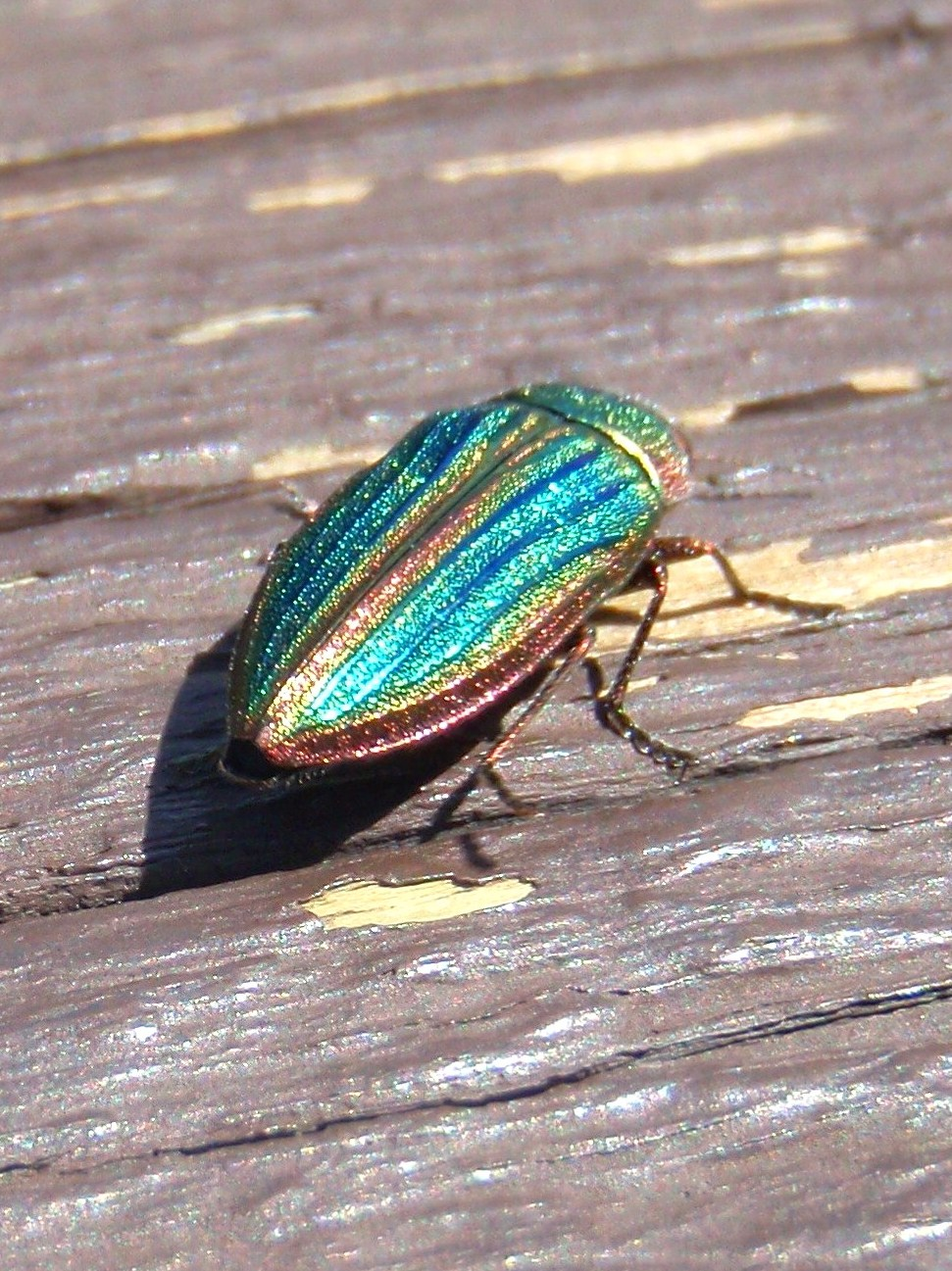 Golden Buprestid; Cypriacis aurulenta (Buprestis aurulanta), taken near Mammoth Hot Springs in Yellowstone National Park